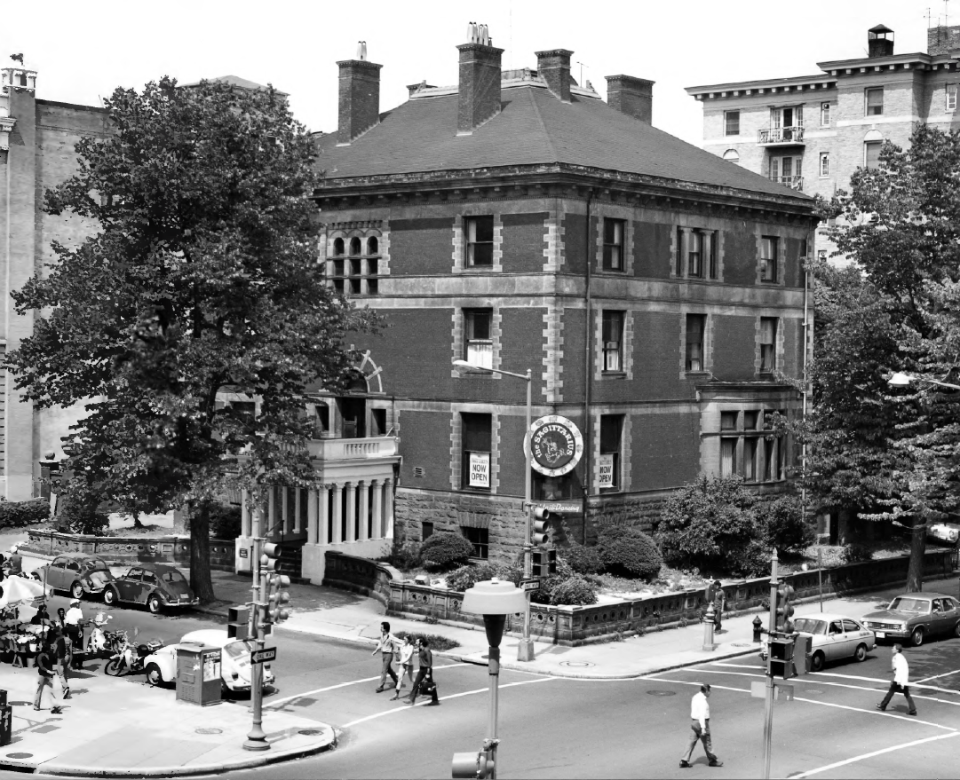 Fraser Mansion, circa 1975.